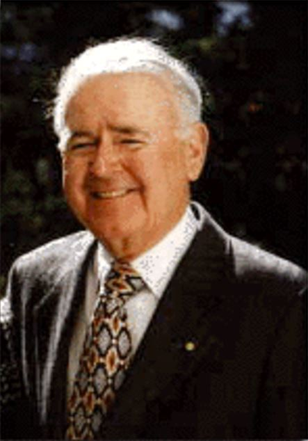 Portrait of William Deane, Governor-General of Australia 1996-2001.